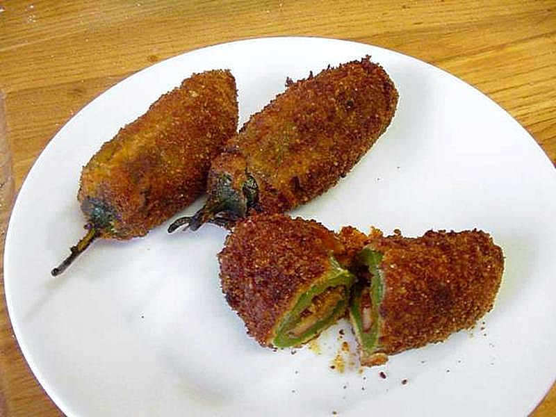 Stuffed jalapenos peppers